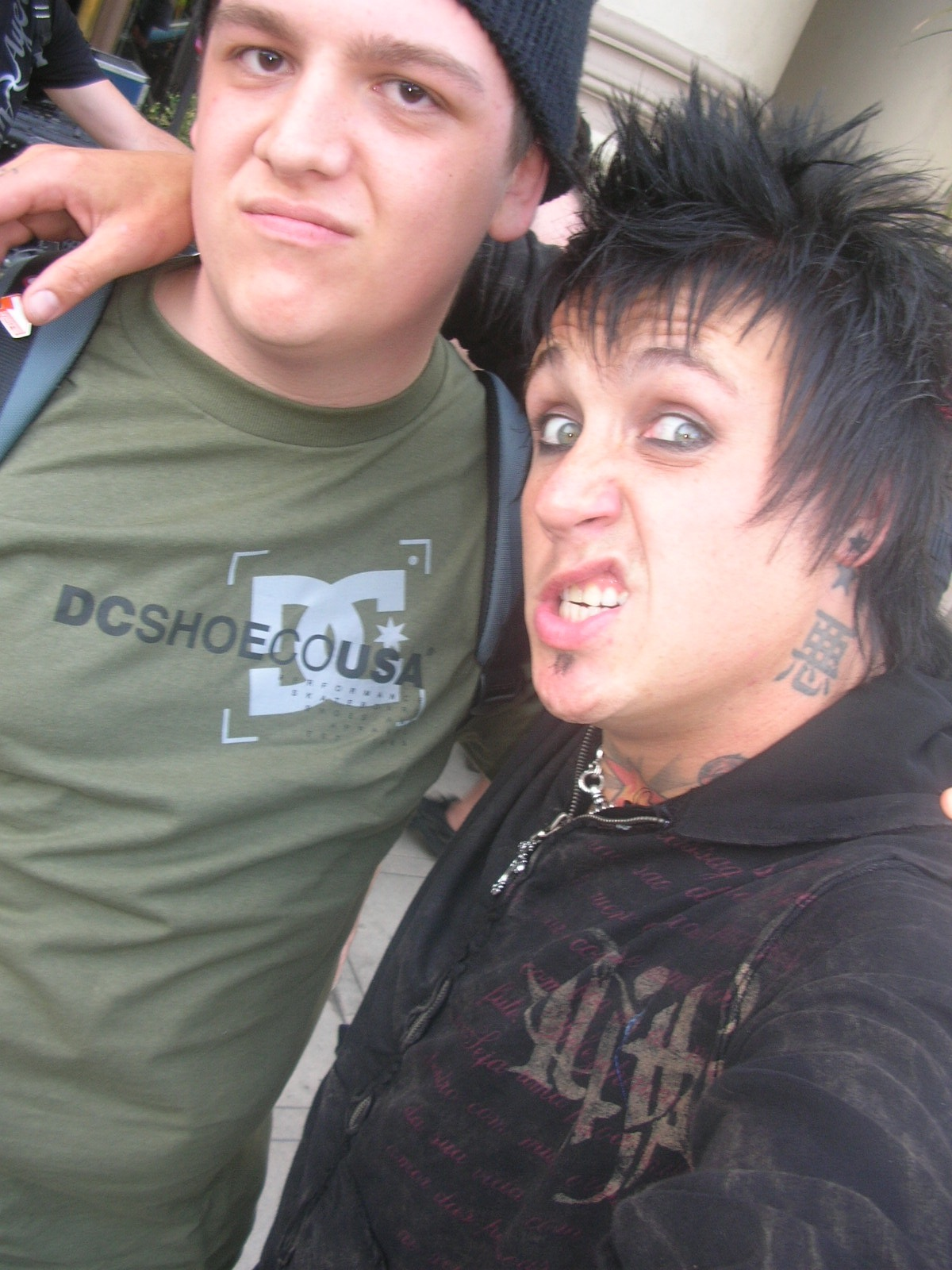 "Scarred" Presenter Jacoby Shaddix (left)